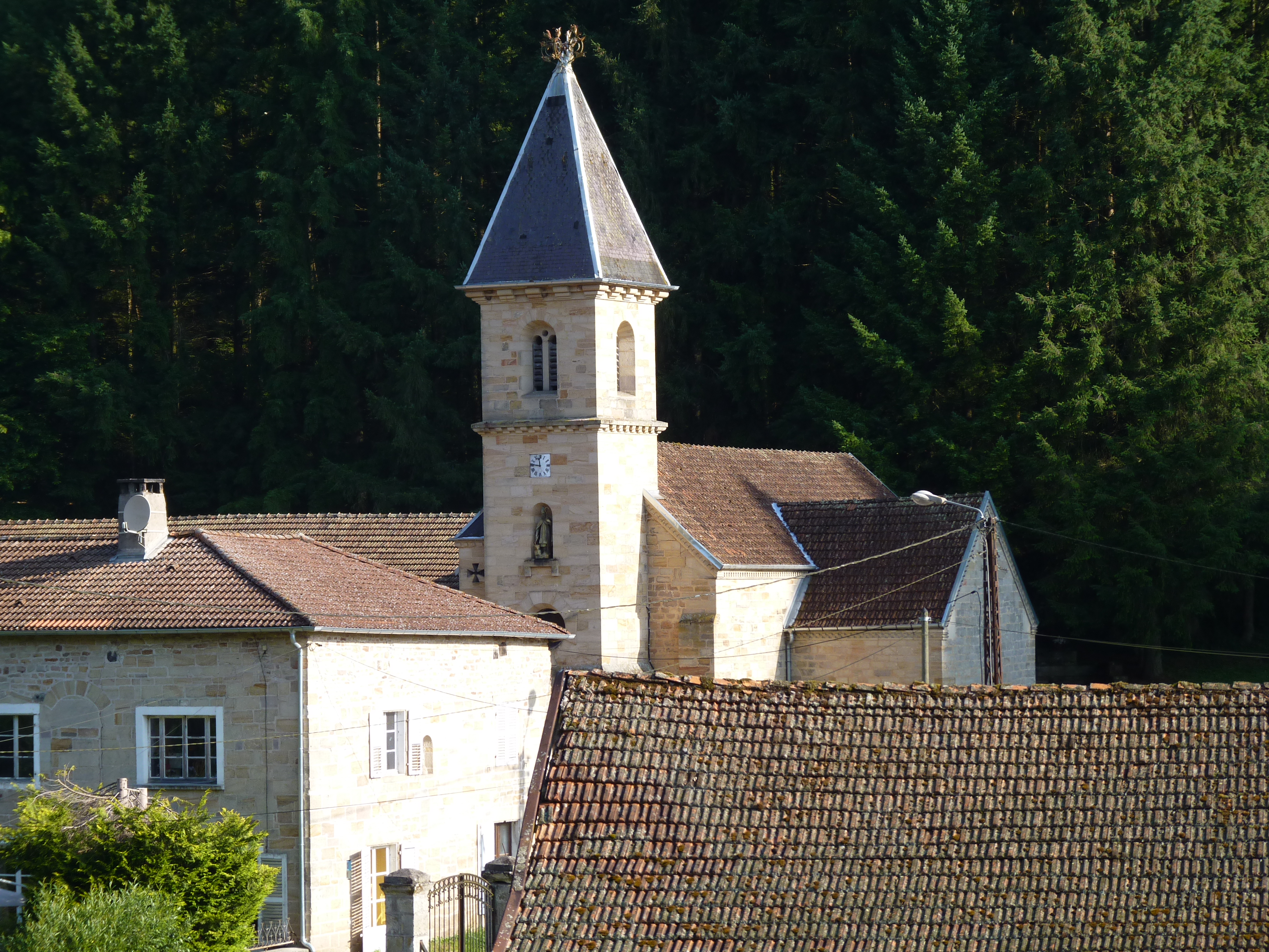 Droiteval church, in the vallée de l'Ourche, Vosges, France